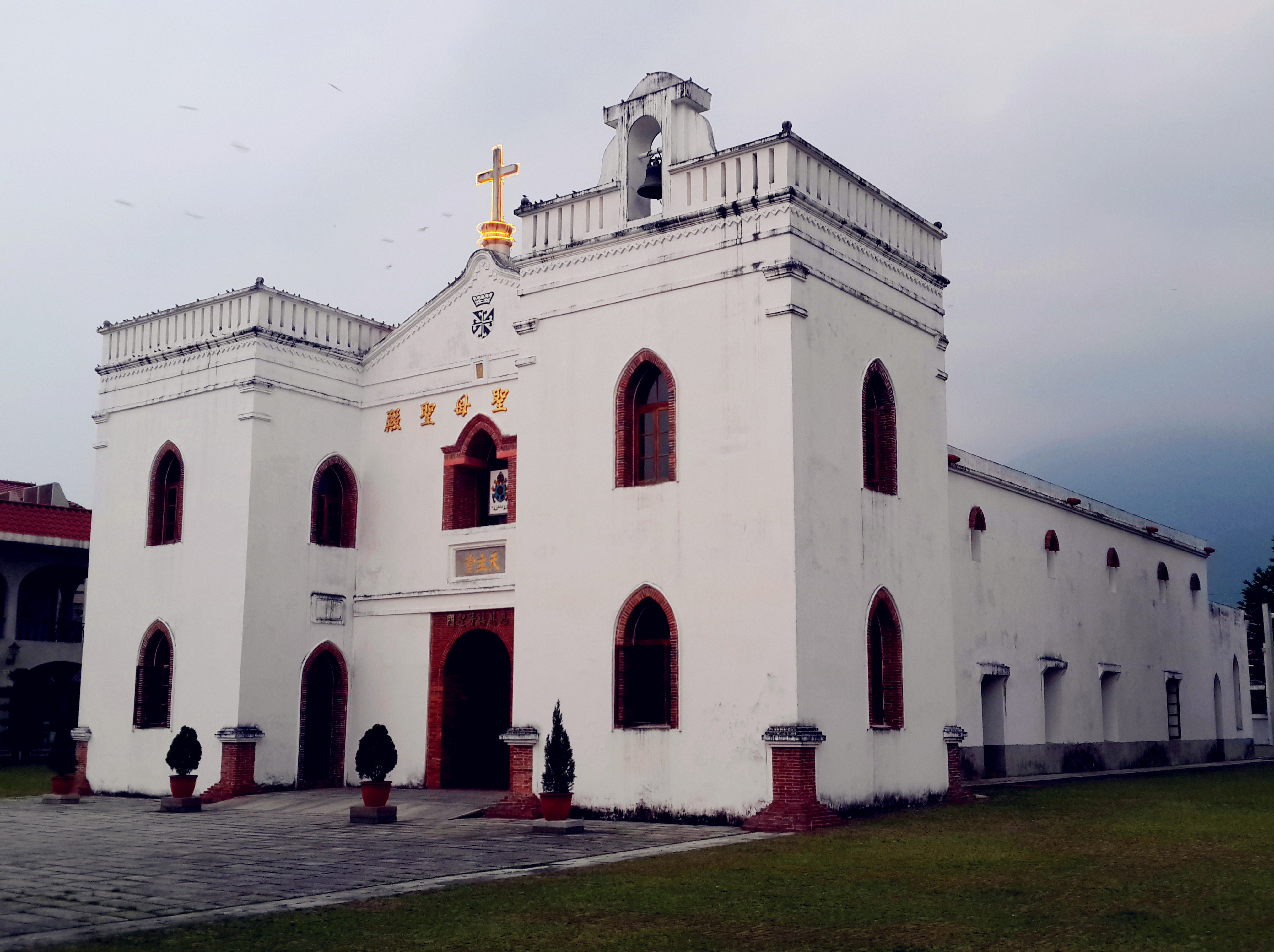 Since its establishment, the Church had undergone fire and earthquakes which resulted in the collapsing of the church walls. It was not until 1869 under the support of the converters that Father Liang Fang-Ji purchased a portion of the forestland and built what is today’s WanChin Catholic Church in the likeness of the Spanish fortress. Building materials used to build the Church at the time were mainly limes, stones, kapok fiber, grizzle bricks, brown sugar and honey mixed together with no traces of steel reinforcements, yet the mainframe remained incredibly strong; in front of the Church is the twin-tower church with façade similar to the Spanish fortress. Between the towers is a gable wall with a traditional horseback image in which a cross is erected on the horseback. A crown and Dominican Order emblem decorated the lower and upper side of the gable wall respectively; Church ceiling, wall paintings as well as engravings at both side of the wall, back penthouse, preacher’s stand, and Holy Mother’s sedan chair were all made of woods with both Oriental and Gothic decoration style merged together. In 1874 during the Ching Dynasty, Minister Shen Bao-Zhen passed by WanChin Catholic Church during his Southern Taiwan routine check and saw the cohesiveness and the bonds between local residents and converters with his own eyes. He was convinced that religion indeed does possess the strength to inspire goodness in human beings as well as the power to eliminate racial discrepancies. He then reported back to Emperor Tongtzu in requesting for the Emperor’s “Royal Script” in permission for the Church to operate along with a sacred stone with “Catholic Church” engraved and embedded above the Church. Since then, soldiers and officials must bow and pay respect to the Church during their passing.